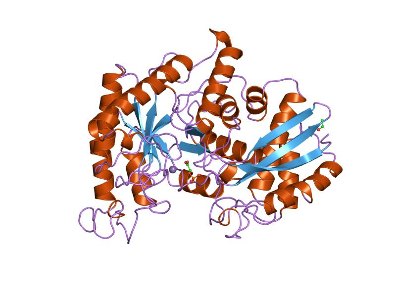 Cartoon representation of the molecular structure of protein registered with 1pdz code.